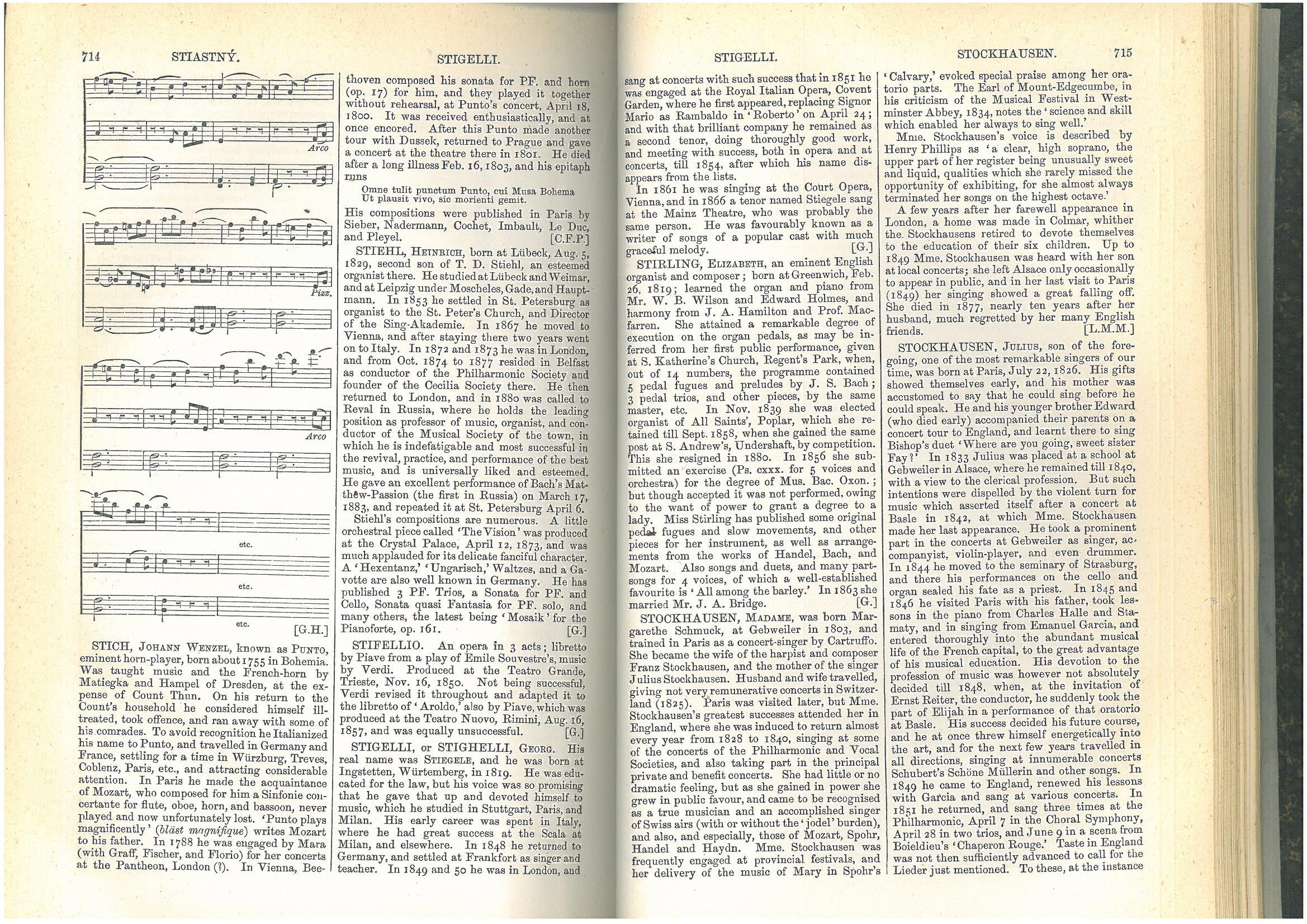 Biography of Georg (Giorgio) Stigelli (Stighelli) (1819-1868), German opera tenor und composer